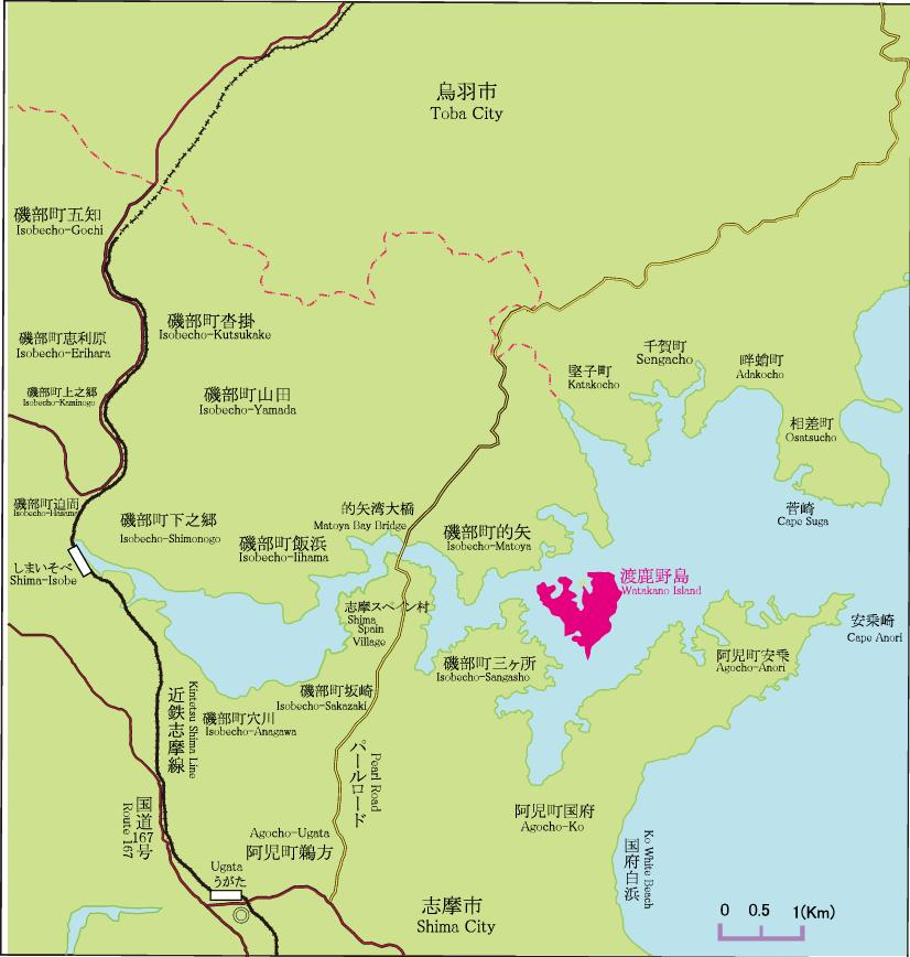 This is a map of Watakano Island.